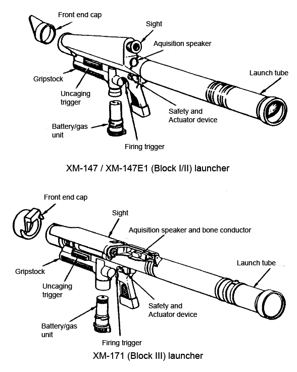 A comparison between the block I/II and final block III launcher for the Redstone surface to air missile.